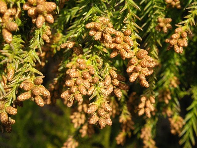 Cryptomeria japonica(スギ), Male flower(雄花)